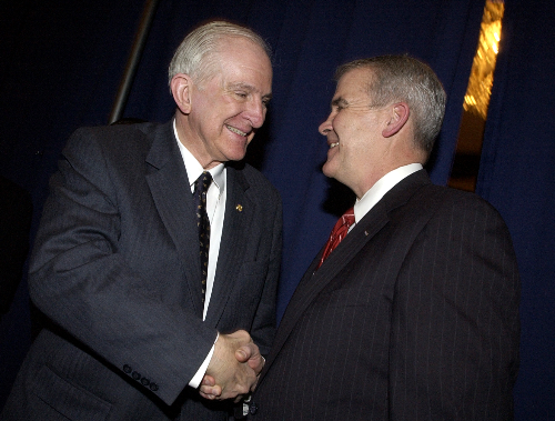 Photo by Tom Williams Cong Sam Johnson greets Col. Ollie North (Ret.) as they pass behind stage at the leading conservative convention, the Conservative Political Action Conference (CPAC). Johnson discussed the war on terror before the group of nearly a thousand grass-roots activists of all ages from all across America. North spoke on the panel following Johnson. To learn more about CPAC, visit